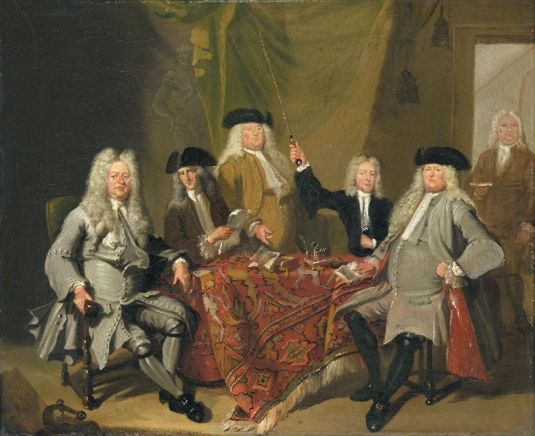 Study for a larger painting.